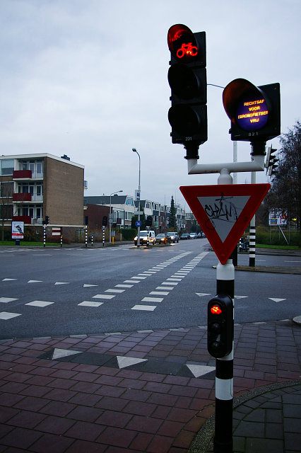 traffic lights for bicycle at Amstelveen, Netherlands